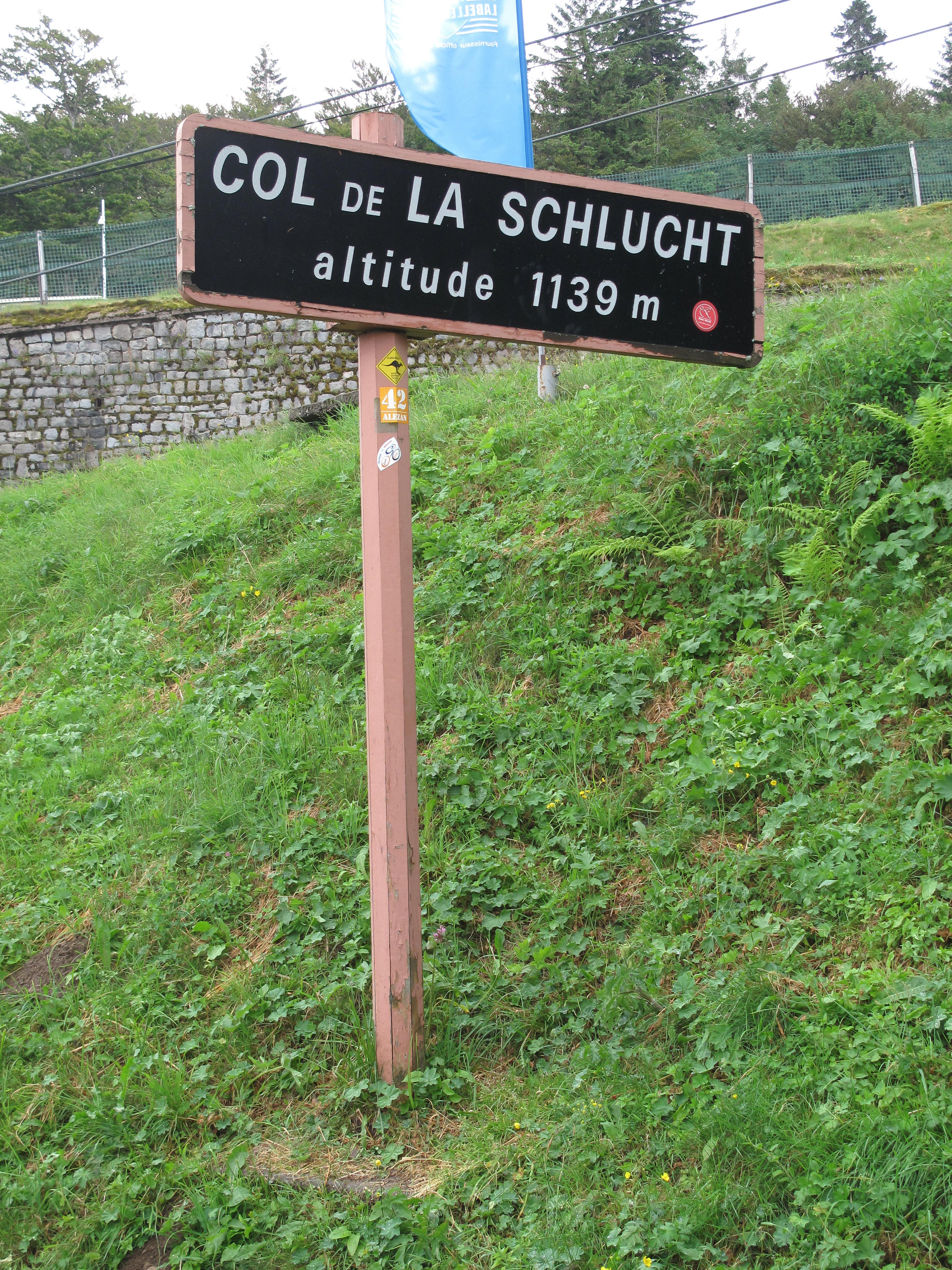 Col de la Schlucht, name sign